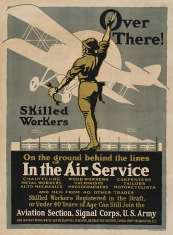 Over There!, by Louis D. Fancher